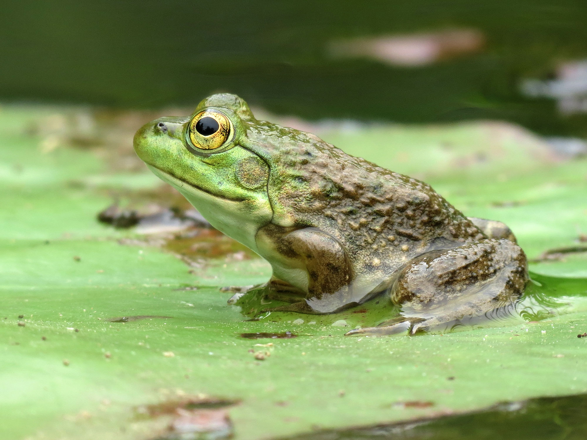 Lithobates catesbeianus. Kenilworth Aquatic Gardens, Washington, DC, USA. 1 September 2012.